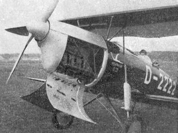 Darmstadt D-22 photo from L'Aerophile Salon 1932